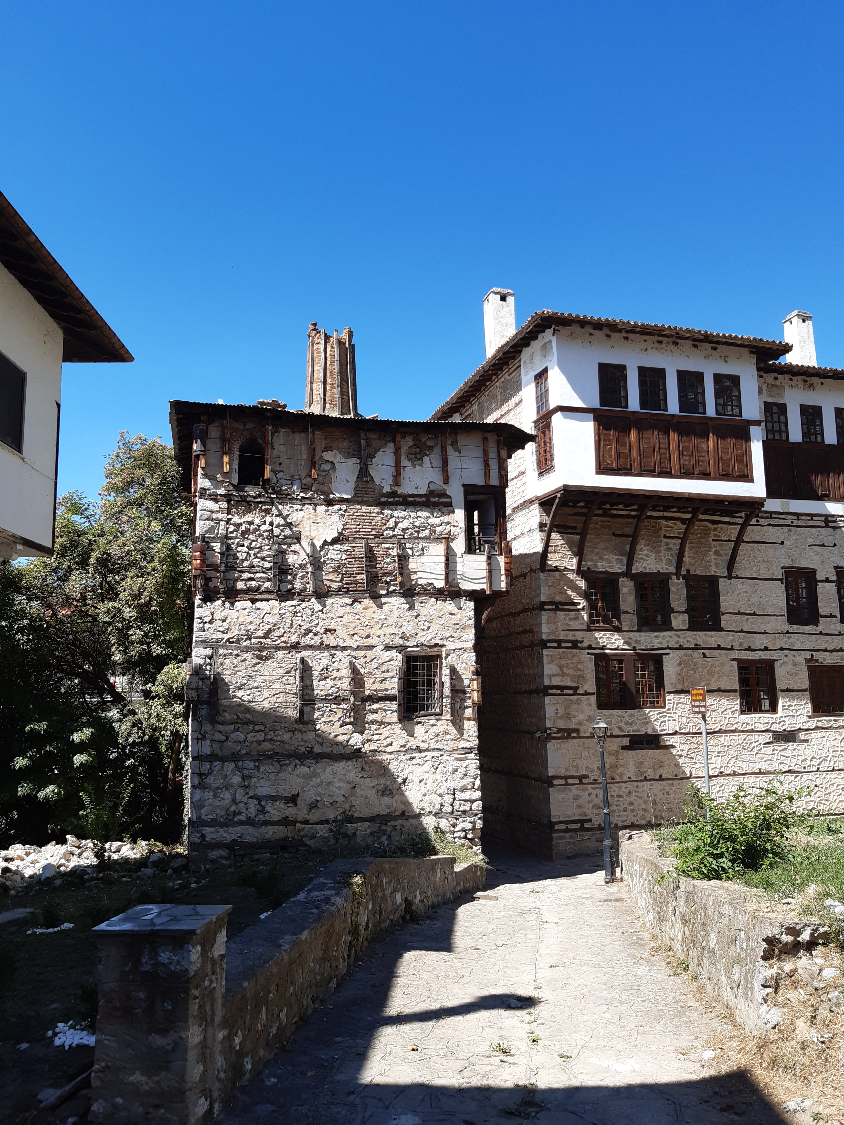 Mantzouras Mansion and Tsiatsiapas Mansion in August 2020